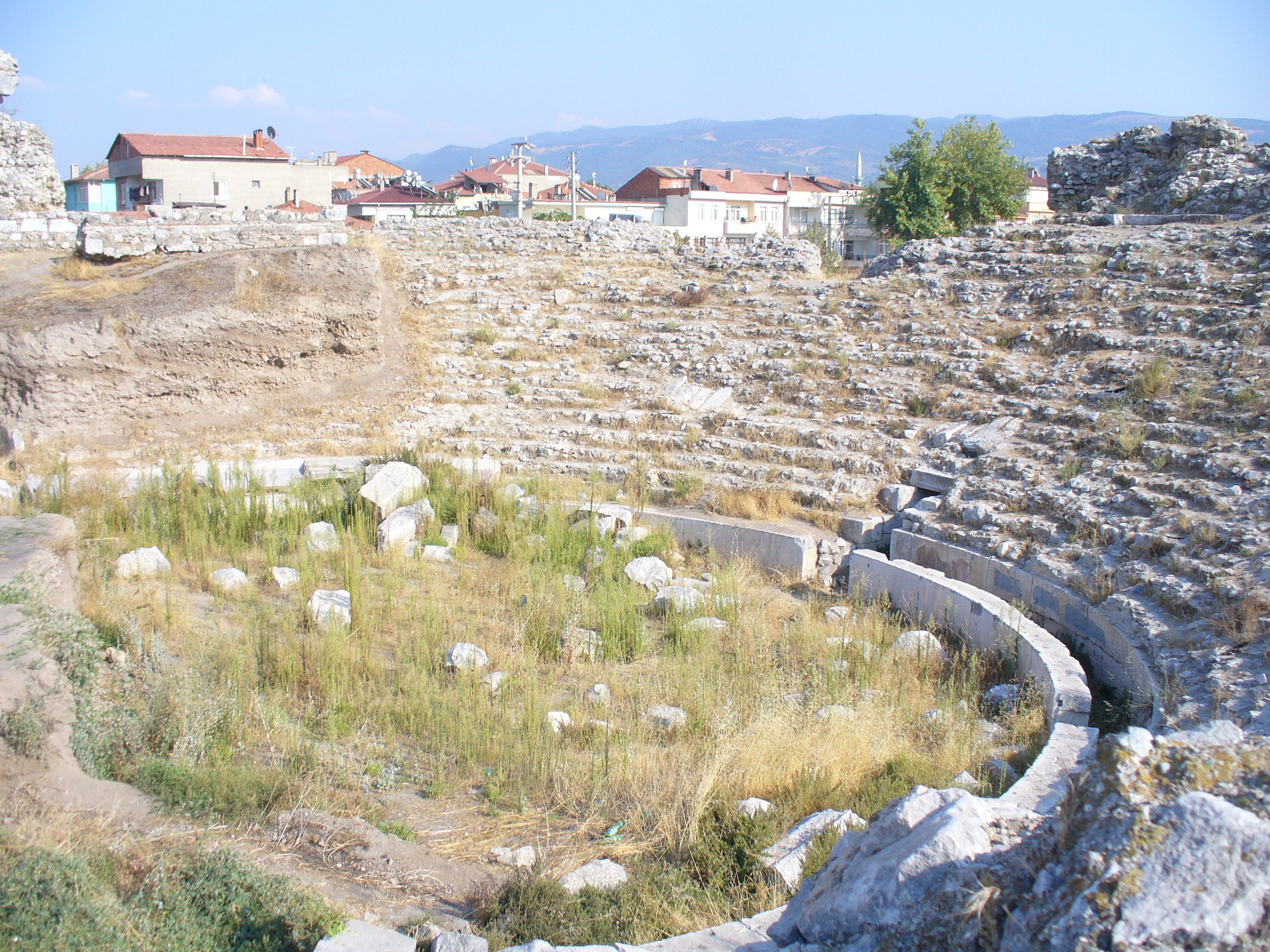 Roman theatre in Nicaea (Iznik).